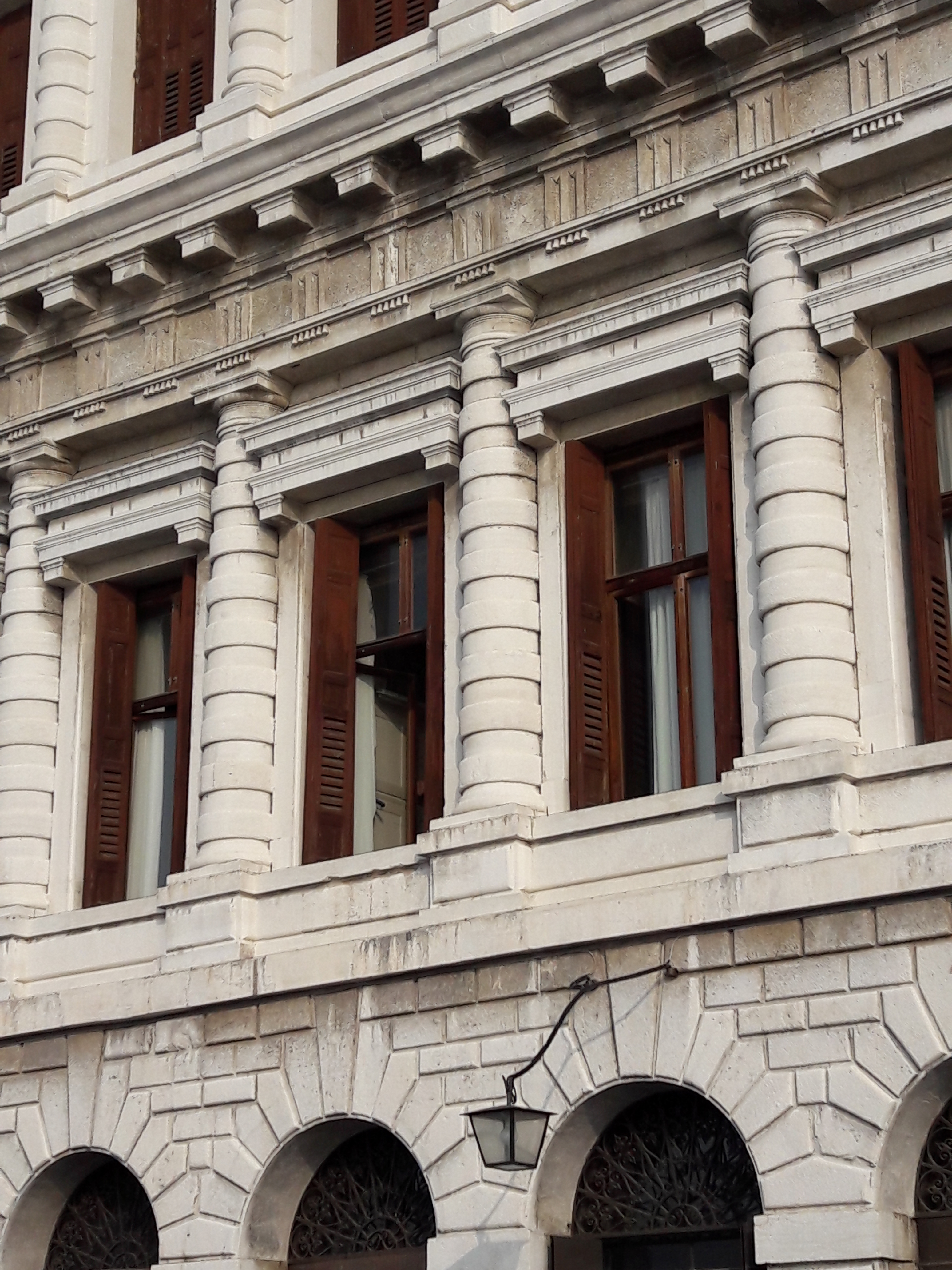 Zecca of Venice (detail facade)